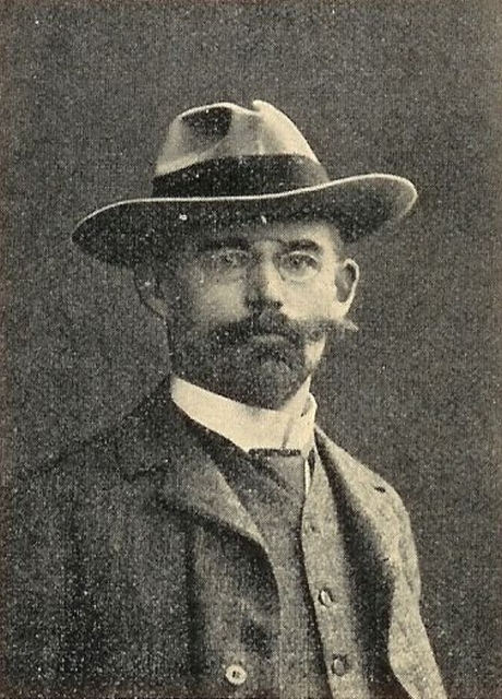 The painter Peter Paul Draewing